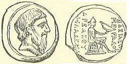 Coin of Phraates I of Parthia